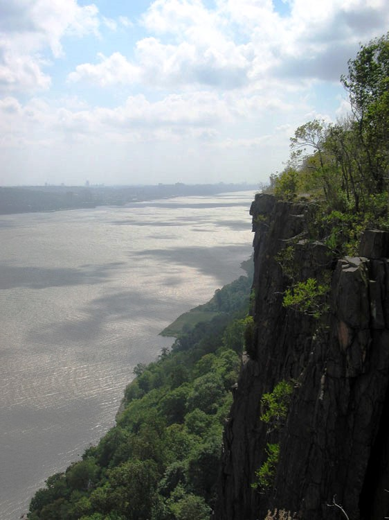 The Palisades on the New Jersey side of the Hudson, looking south towards New York City.